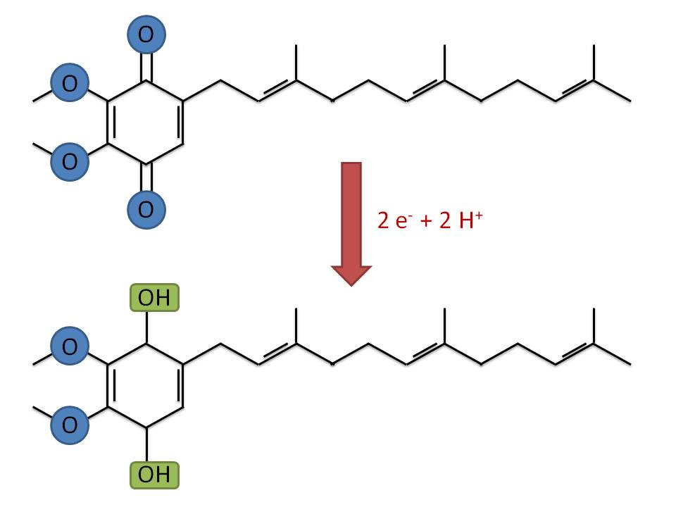 This is the reaction that transforms Ubiquinol to Ubiquinone